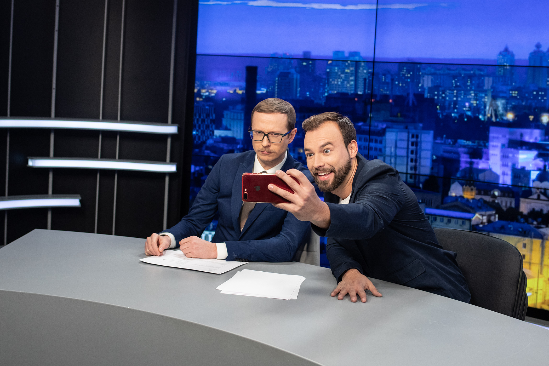 Roman Vintoniv and Dmytro Shchebetiuk during filming of the "#@)₴?$0 with Michael Shchur" TV show.